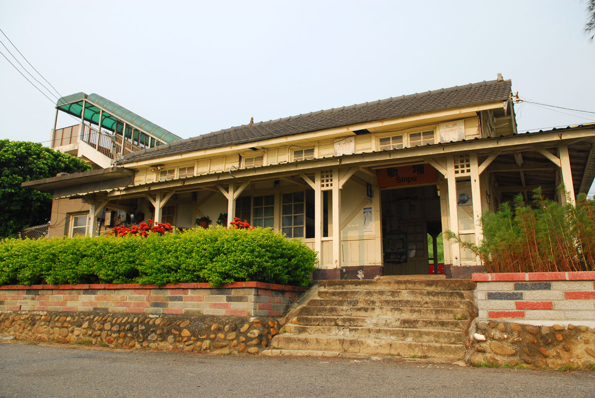 BaiShaTun Station is a local train station of Taiwan's Western main rail line. It's located within the boundary of TongSiao Town, Miaoli County. The station building built in 1922 has been appointed as a county heritage site by Miaoli County government.